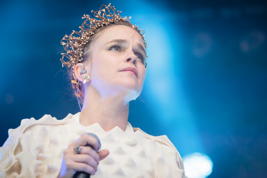 Gunnhild Sundli in a concert with Gåte at the DnB-stage at Grefsenkollen. The concert was part of Over Oslo and took place on 20. June 2018 in Oslo. Lineup:Gunnhild Sundli (vocal)Sveinung Sundli (fiddle)Jon Even Schärer (drums)Magnus Børmark (guitar)Mats Paulsen (bass guitar)